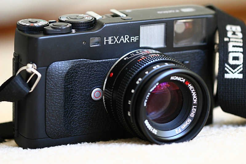 Konica Hexar RF camera with 50mm f2 M-Hexanon lens fitted.